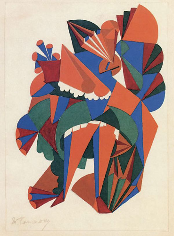 Mikhail Larionov Lady with a fan. Sketch of a costume for the ballet «Natural History». 1916